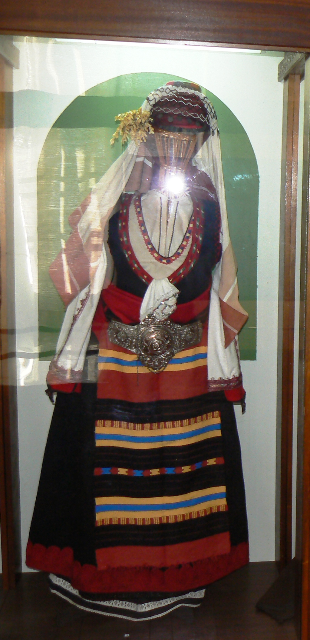 Traditional female festive costume from village Balgari, Burgas District, Burgas ethnographic museum